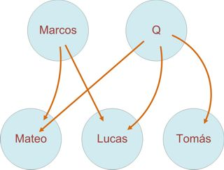 Relationship between the synoptic gospels and the apocryphal Gospel of Thomas with the source Q.